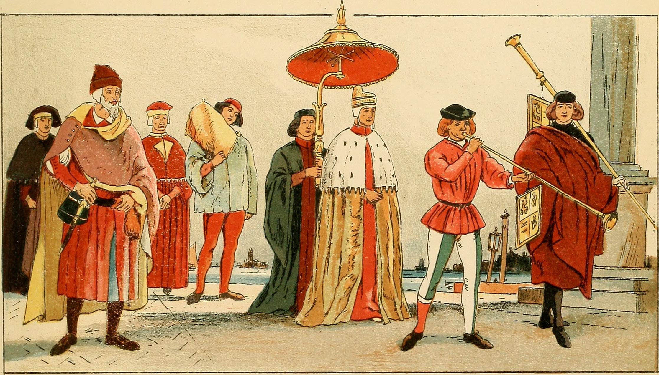 Title: Geschichte des Kostüms Year: 1905 (1900s) Authors: Rosenberg, Adolf, 1850-1906 Heyck, Eduard, 1862-1941 Subjects: Costume Publisher: New York, Weyhe Text Appearing Before Image: ' Text Appearing After Image: ITALY VENICE ITALIEN VENEDIG ITALIE VENISE ;EDRUCKT und VSRLEGT bei ernst WASMU7 157ITALIEN LETZTE JAHRZEHNTE DES XVI. JAHRHUNDERTS 6 7 8 9 10 Zu den Erläuterungen der europäischen Mode, wie sie durch die übrigenTafeln für den Abschnitt des endenden i6. Jahrhunderts gegeben werden, fügt dievorliegende Tafel einige Spezialia hinzu, die durch die italienische Kultur ihr Geprägeerhielten. Fig. I. Römische Kurtisane. Neben Venedig war Rom der größte undluxuriöseste europäische Kurtisanenplatz, und die Absicht einiger ehrbarer, strengerPäpste, sie aus der Stadt zu weisen, hat noch jedesmal zurückgenommen werdenmüssen wegen der Verwirrung, die damit geradezu in die wirtschaftlichen Verhält-nisse, ganz abgesehen von den persönlichen, gebracht worden wäre. So hat mansich mit Kleiderordnungen, die den Kurtisanen Bescheidenheit auferlegten und sieunscheinbarer machten, begnügt. Fig. 2. Ehrbare, unverheiratete Venezianerin der höheren Stände, in ver-hüllender Straßentracht.